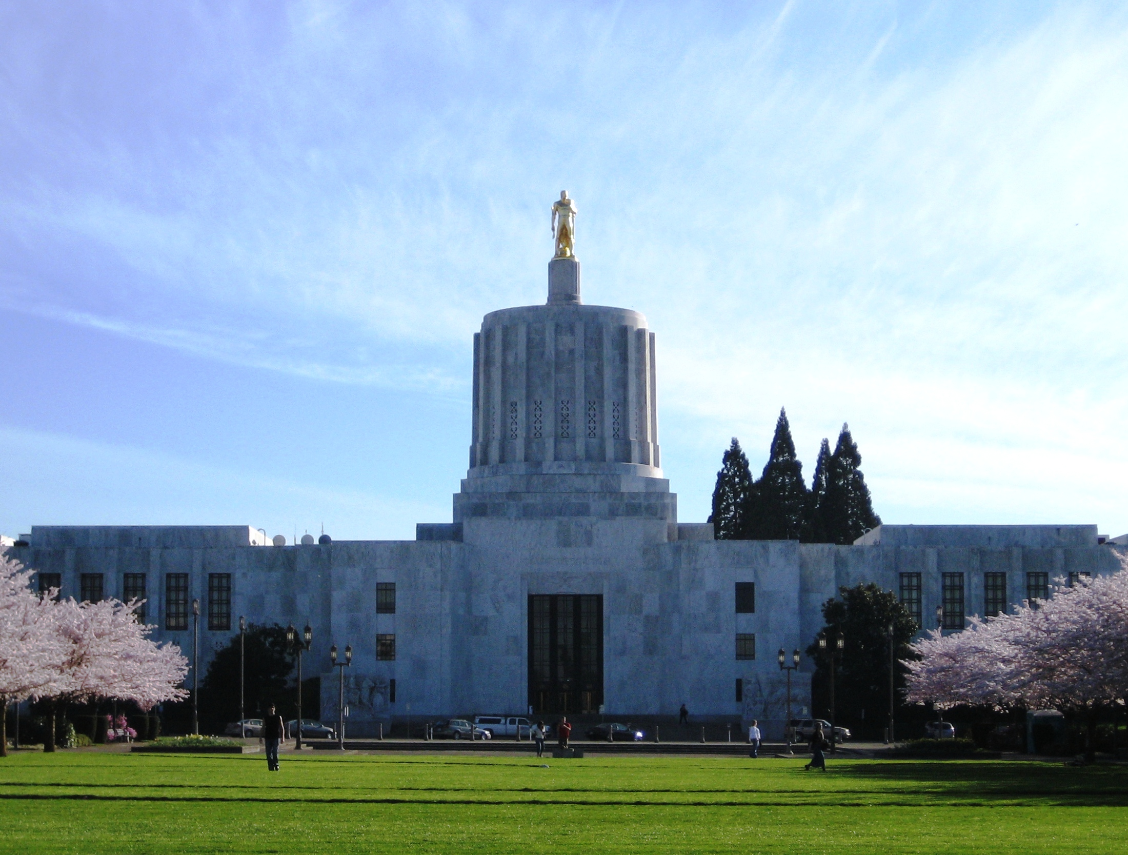 Front exterior of the Oregon State Capitol building in Salem, Oregon, United States. Picture taken from the north on the Capitol Mall looking south. Cherry trees in bloom on sides.